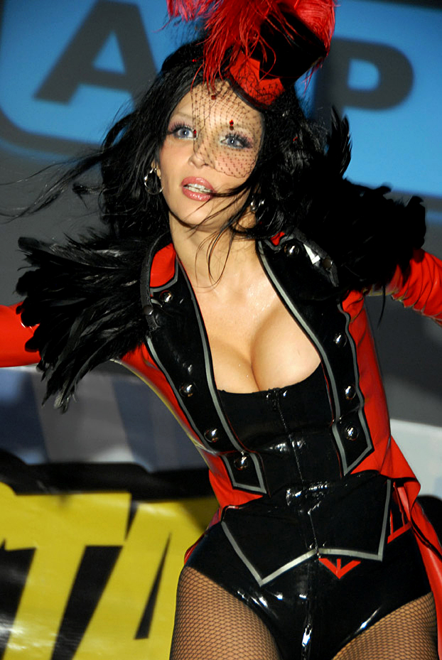 RubberDoll performing at Exxxotica L.A., Los Angeles, CA on July 7, 2010 - Photo by Glenn Francis of